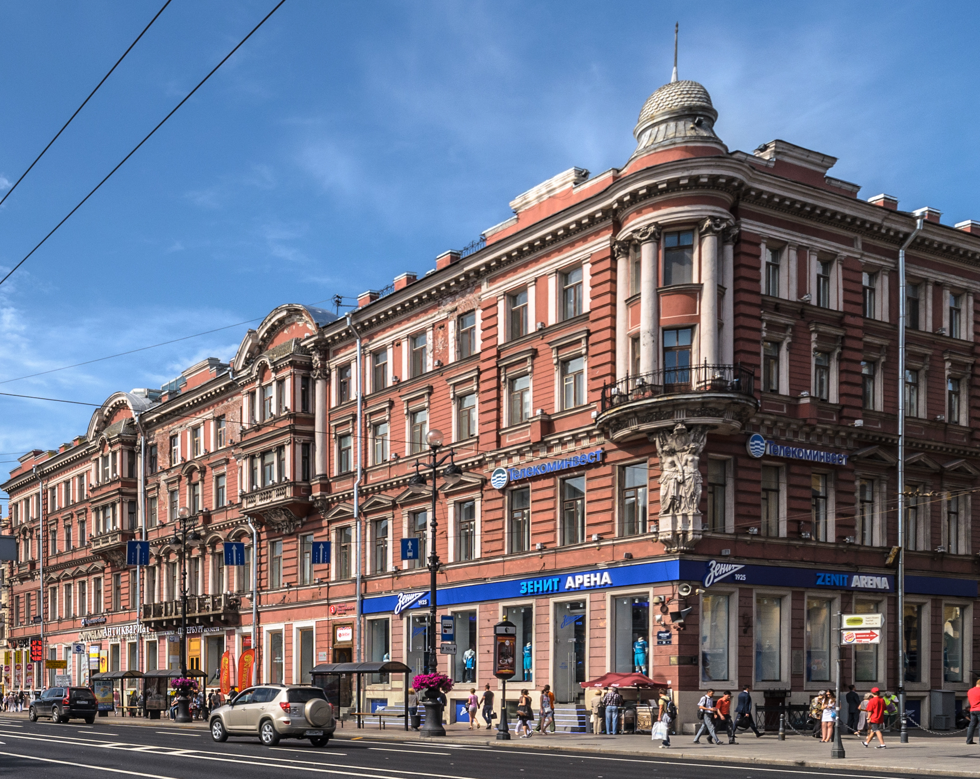 Nevsky Avenue in Saint Petersburg